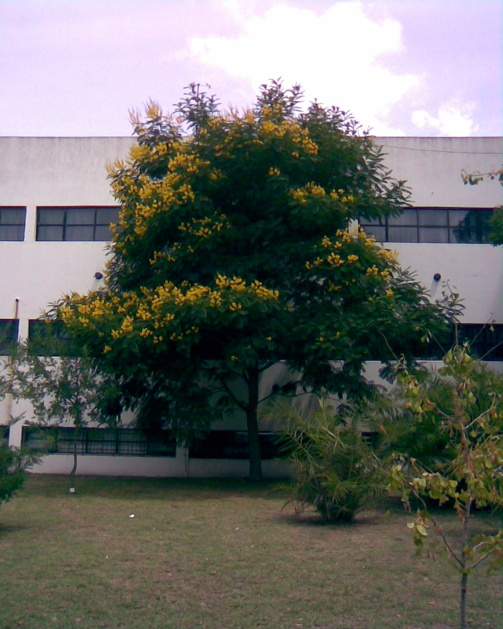 Peltophorum_dubium Ibira-pita General view